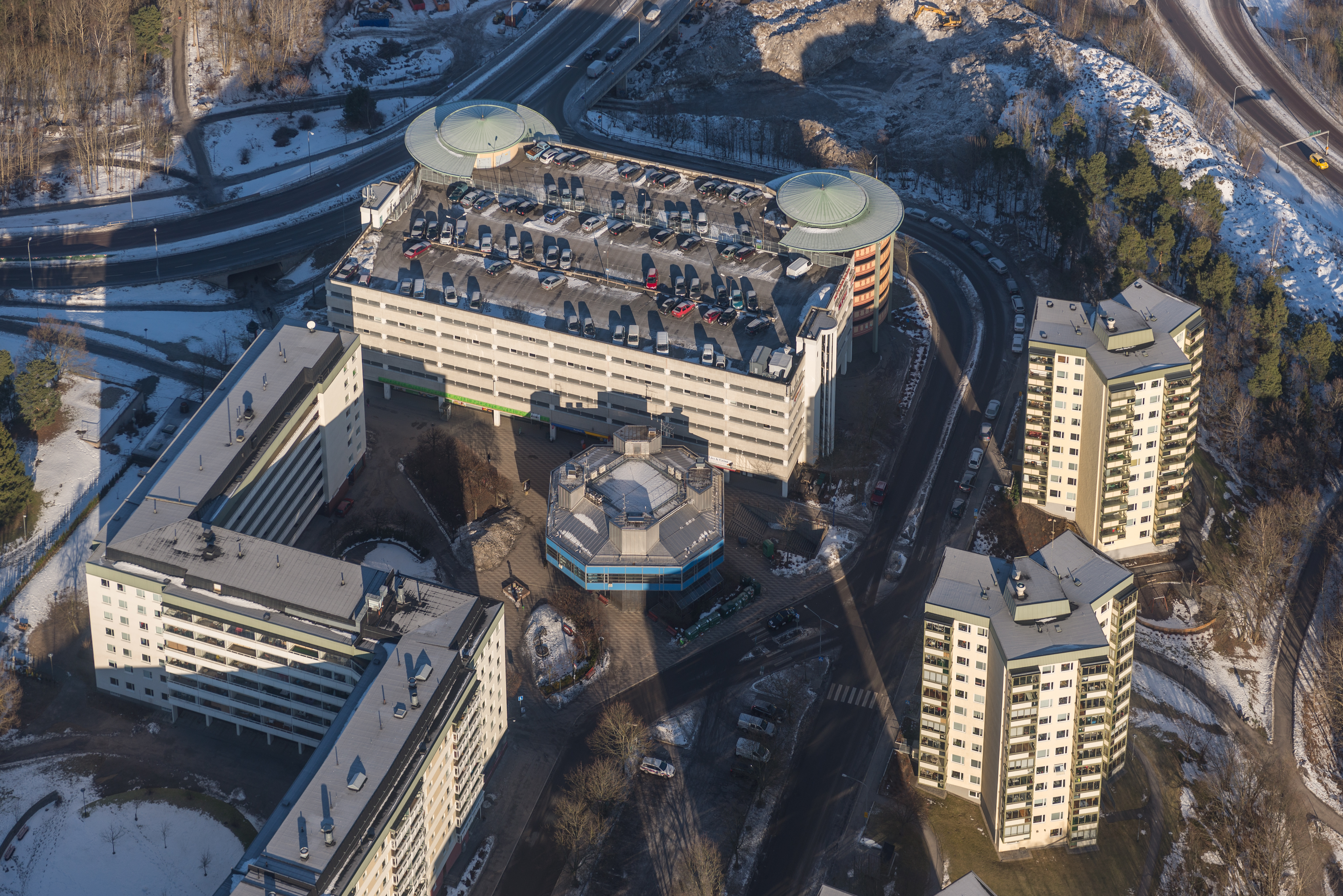 Buildings in Västra Skogen, Solna (Stockholm).